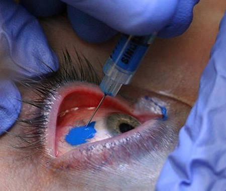 Conjunctival/scleral tattooing (Body Modification)